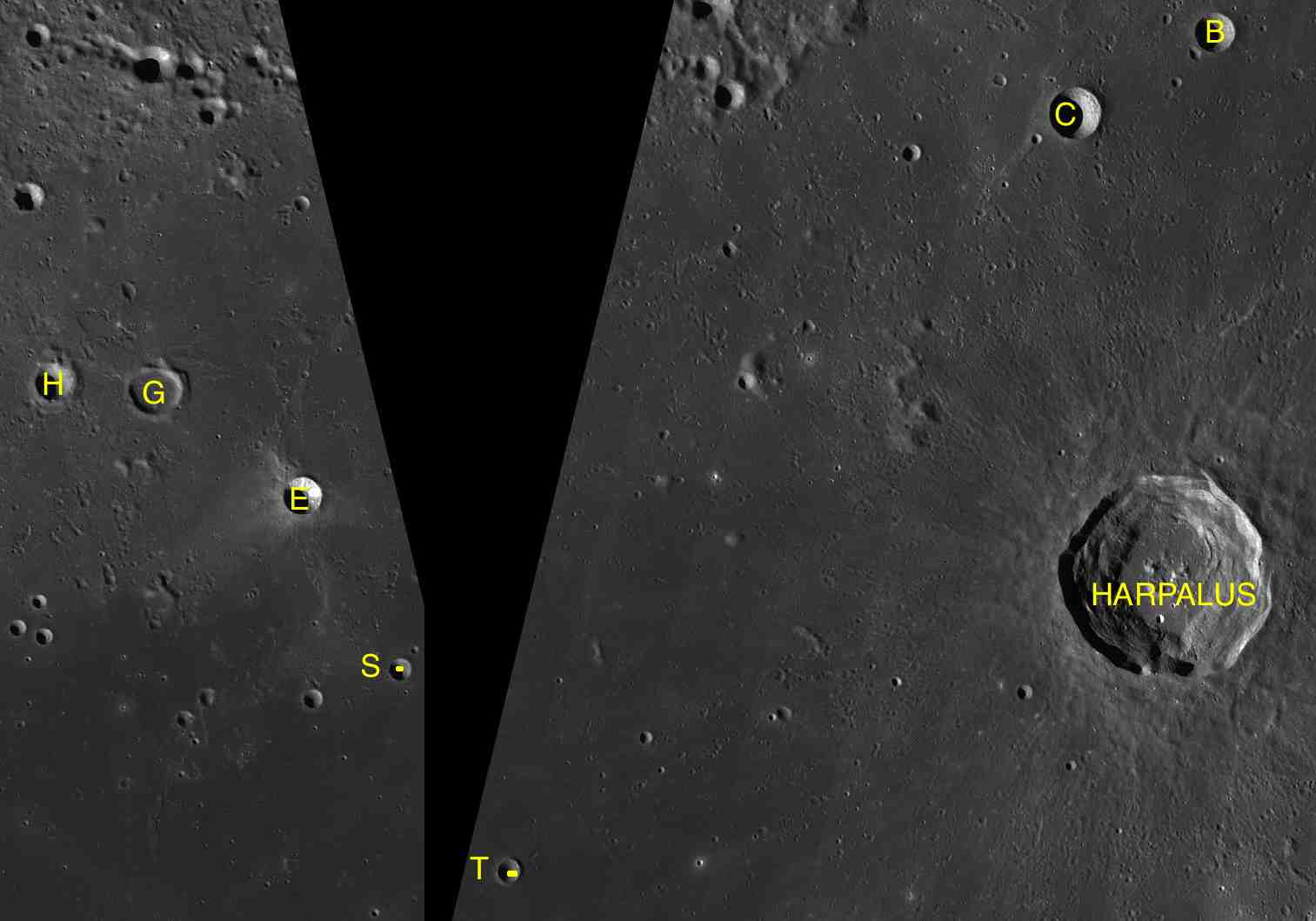 Parts of the charts LAC-10, LAC-11 used for the presentation